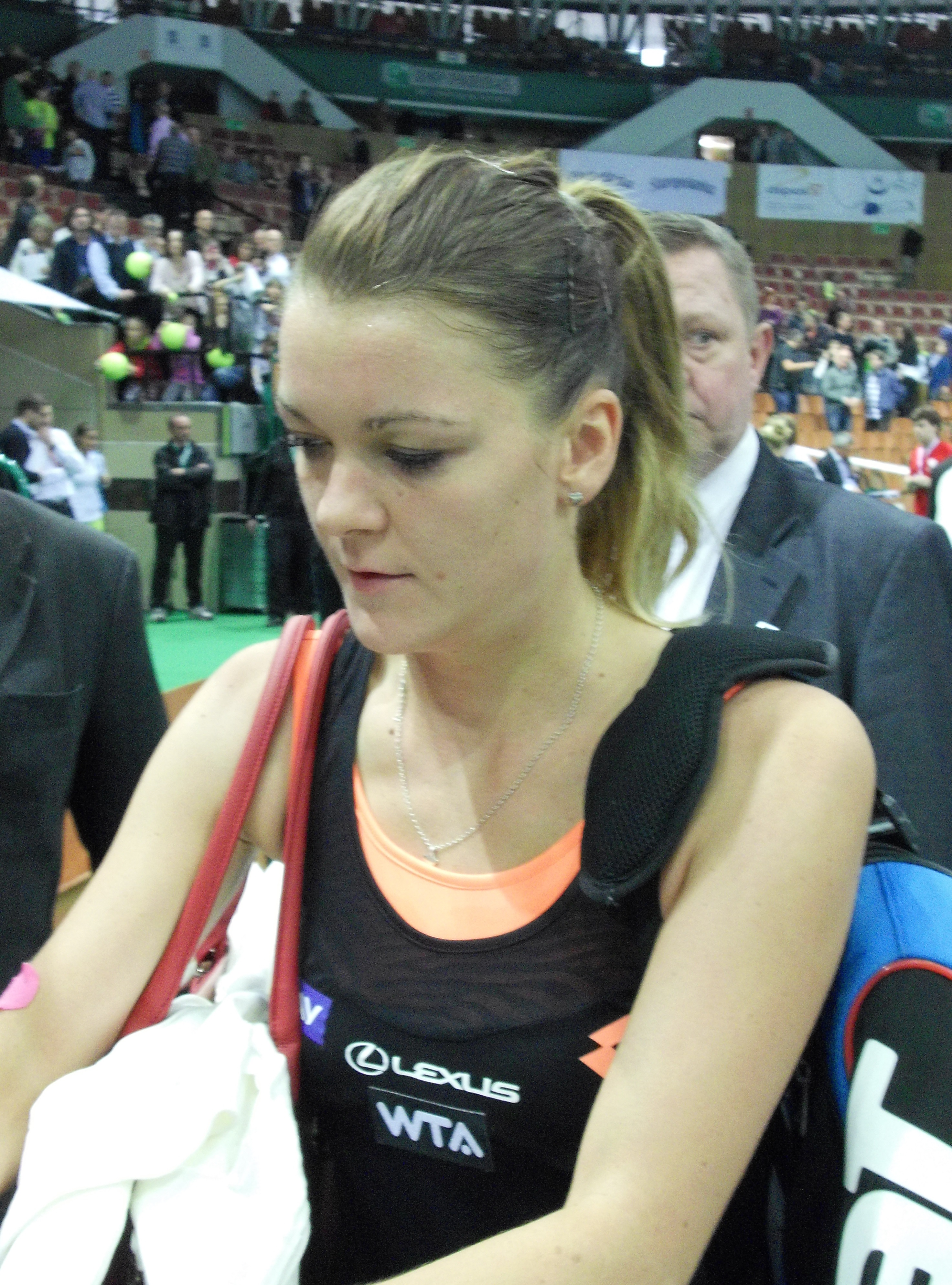 Agnieszka Radwańska after quarterfinal match at BNP Paribas Katowice Open 2014